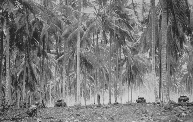 U.S. Marine Tanks of Company B, 1st Tank Battalion in Battle of Arawe supporting the Army advance at Arawe. Coconut grove of Cocos nucifera trees, at Arawe on New Britain, an island of present day Papua New Guinea.